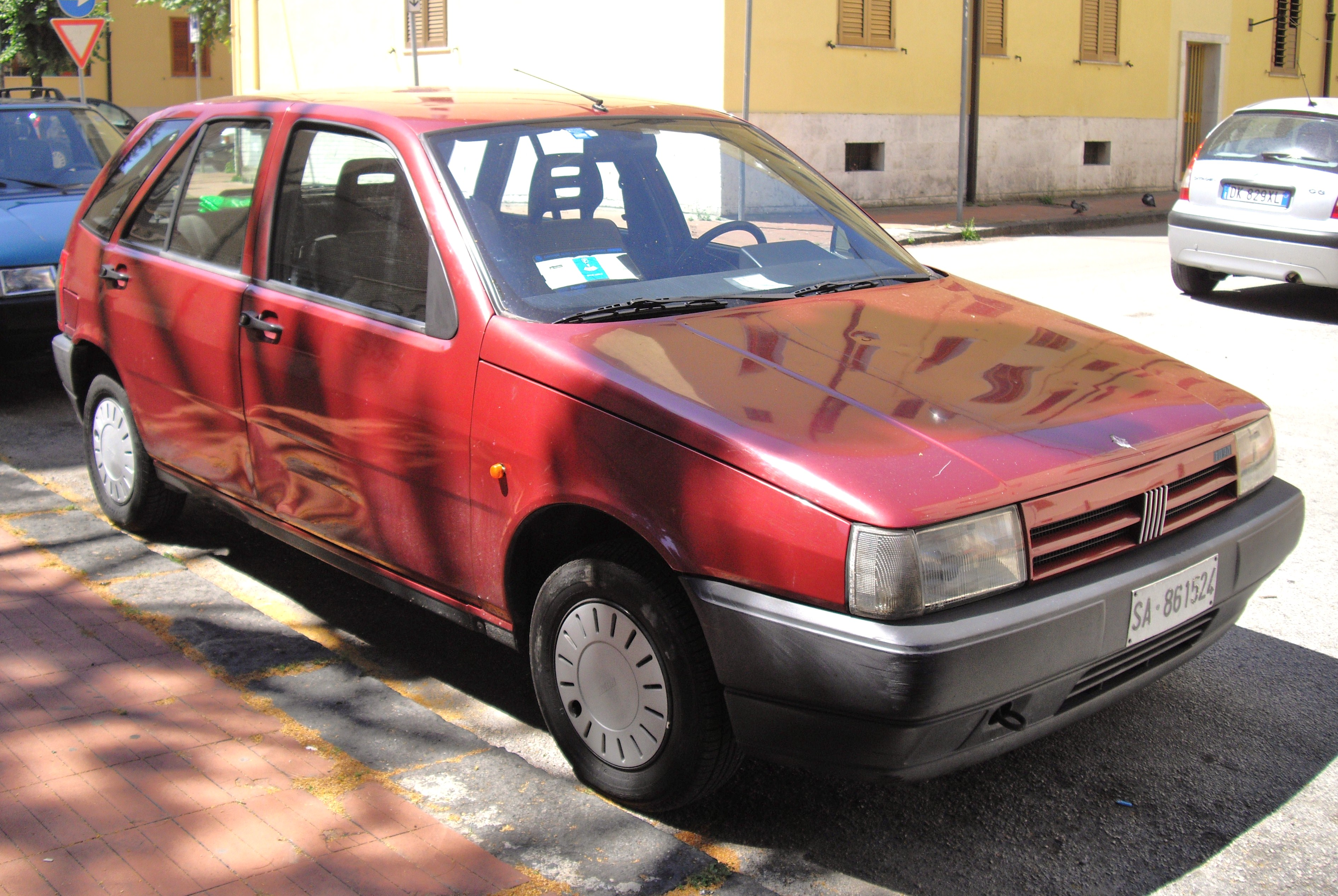 Fiat Tipo red